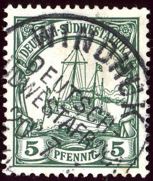 5 pfg Deutsch-Südwestafrika issue 1900, circle at WINDHUK. Michel N°12.